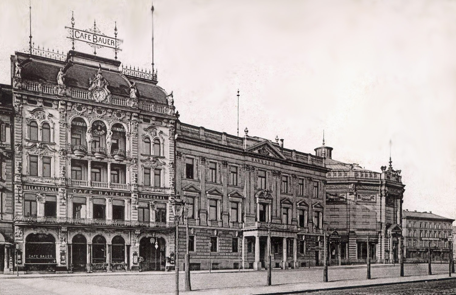 The Gesellschaftshaus Harmonie (Harmony Society House, 1887–1943) in between Café Bauer and the Panorama at Roßplatz in Leipzig, Saxony, Germany. (It is now part of the northeast flank of Wilhelm-Leuschner-Platz.)